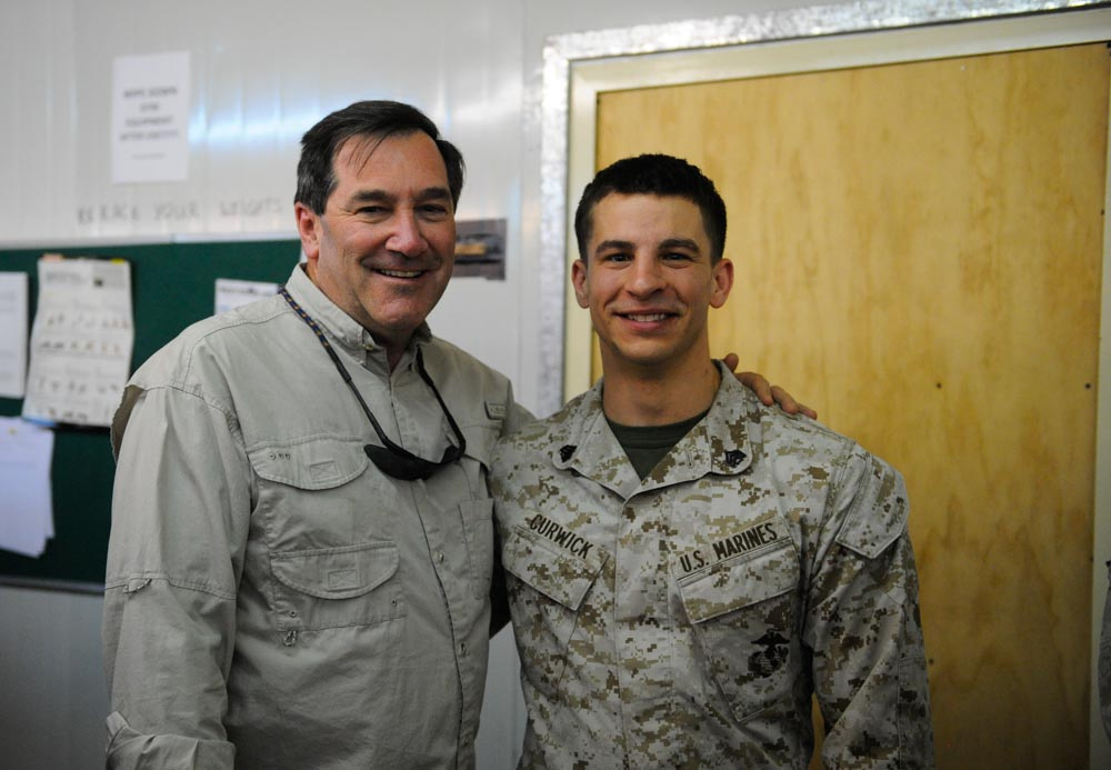 United States Senator Joe Donnelly, meeting with USMC member.